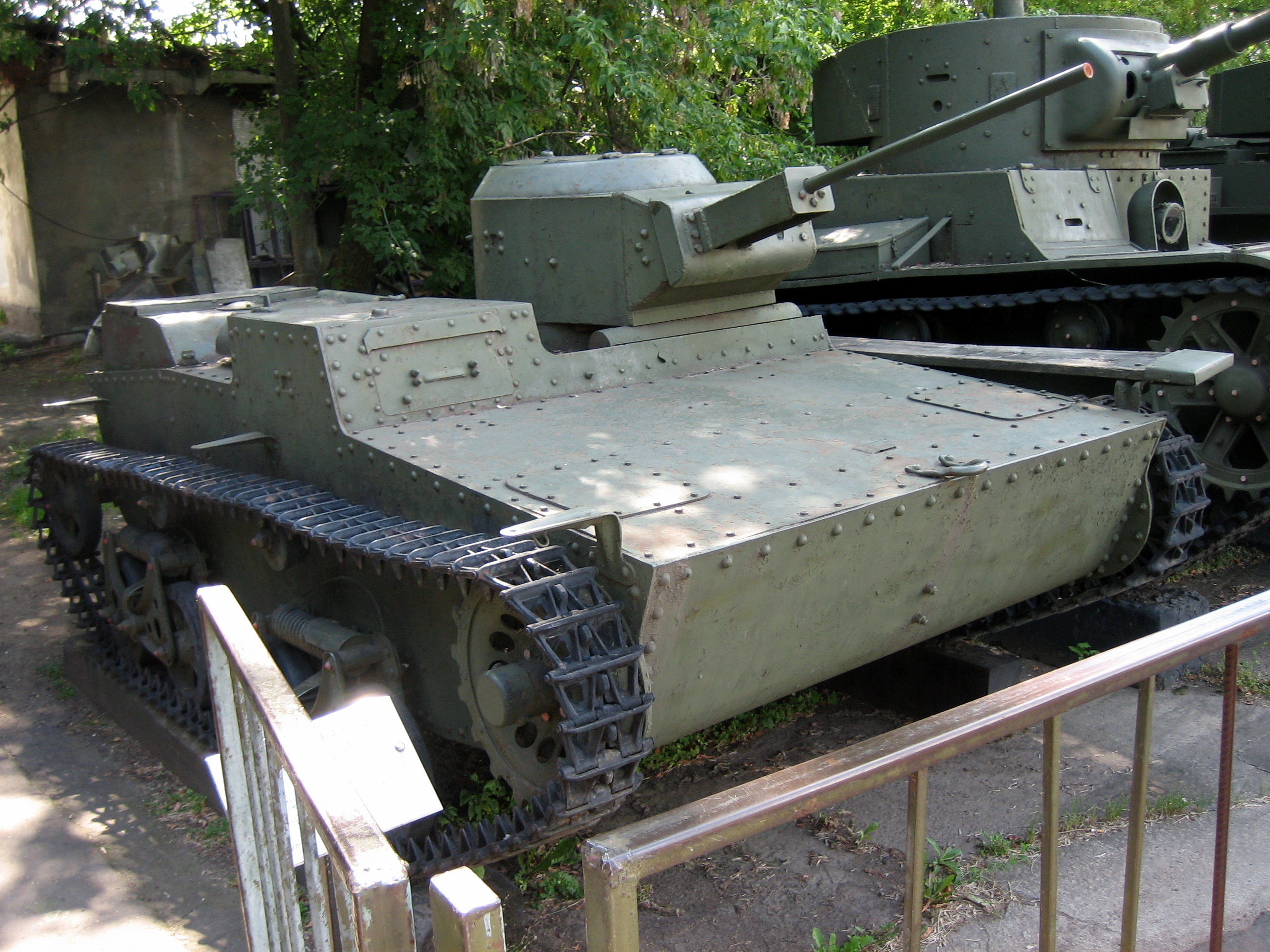 T-38 tank with SHVAK gun, displayed in Moscow Military Museum